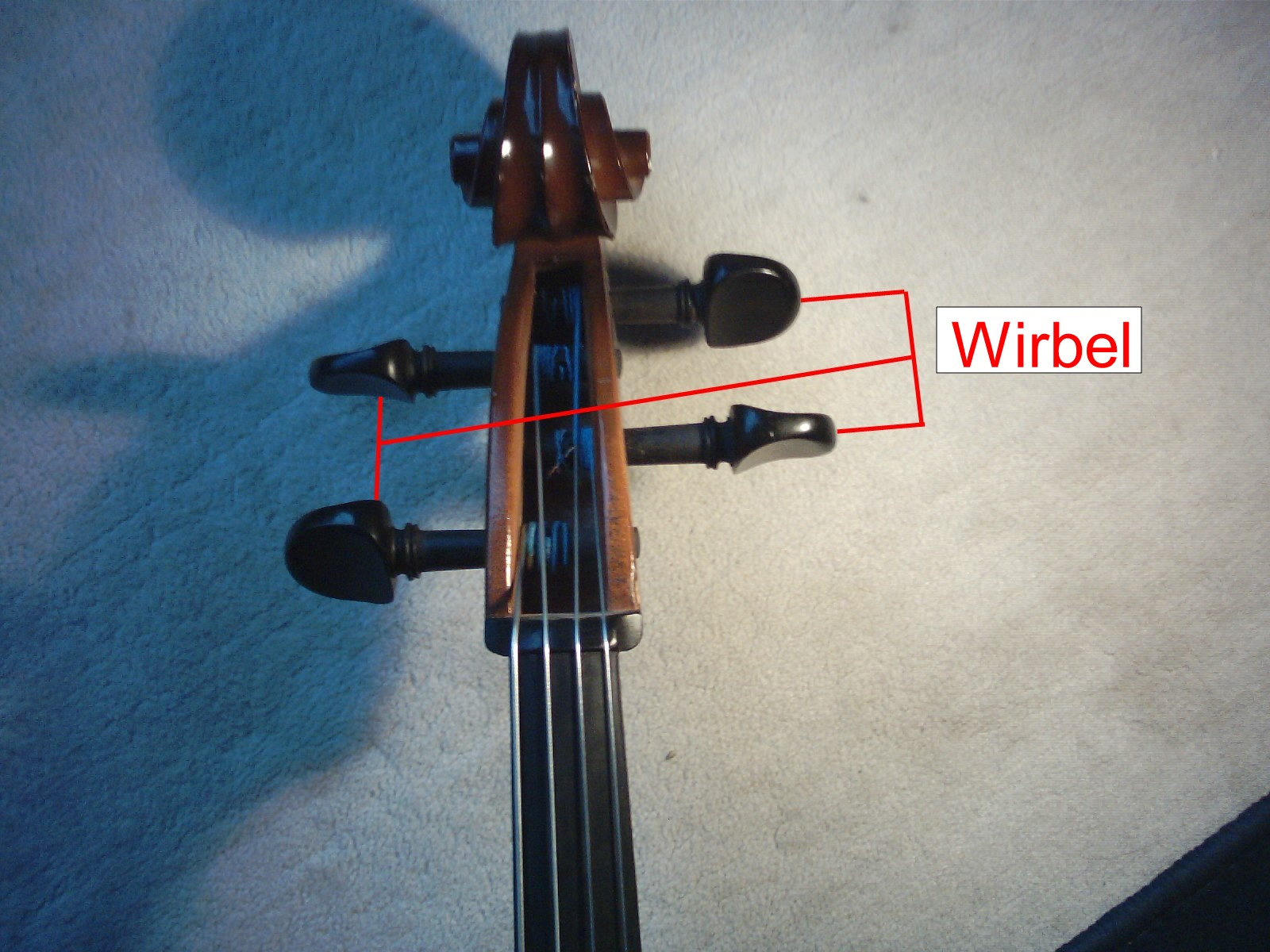 The head of a full size (1/1) cello. Depicted are the pegbox, tuning pegs and the scroll. The pegs are marked.